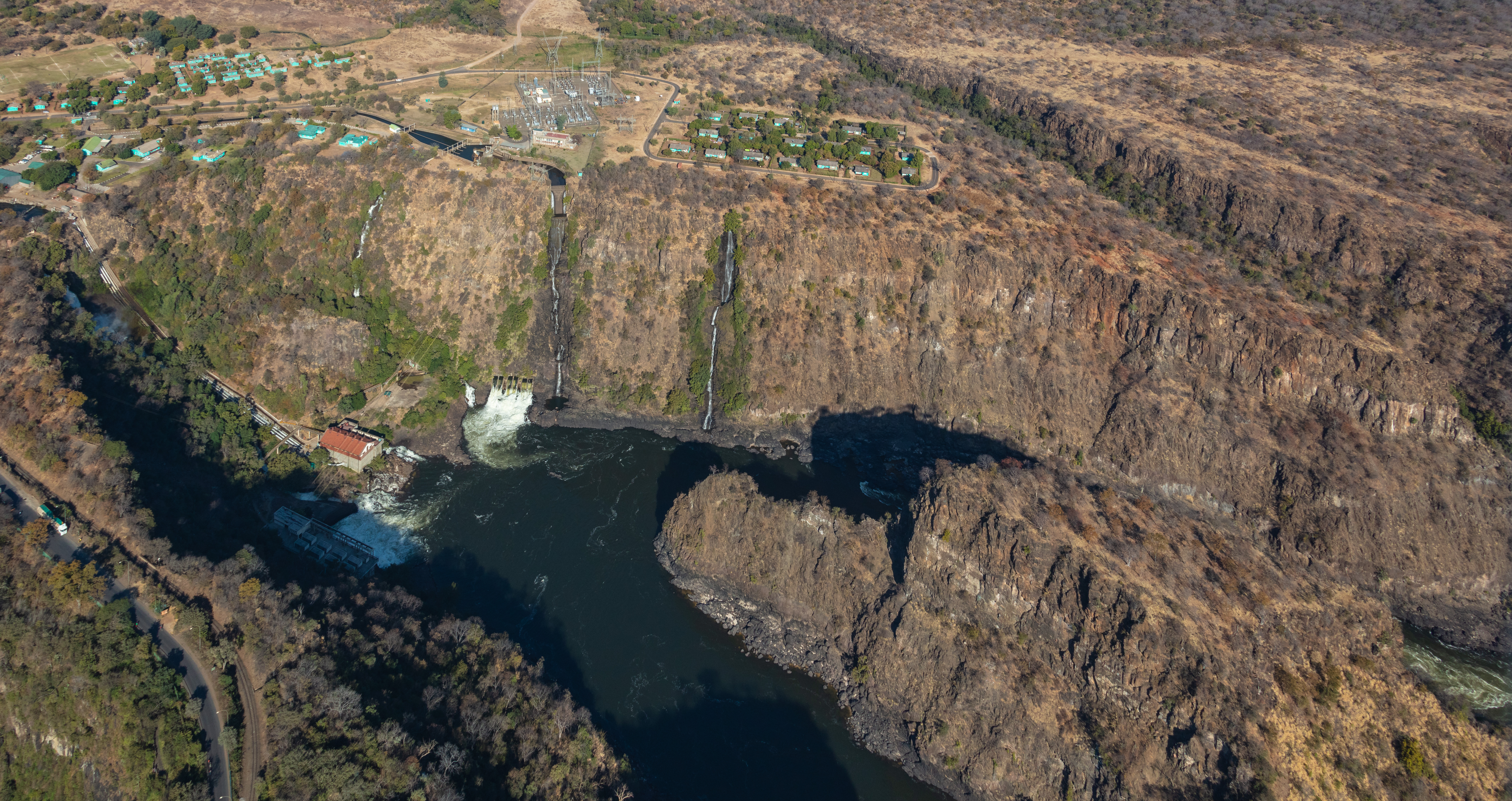 Power plant near the Victoria Falls, Zambia